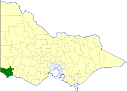 Location of the former Shire of Heywood within Victoria.